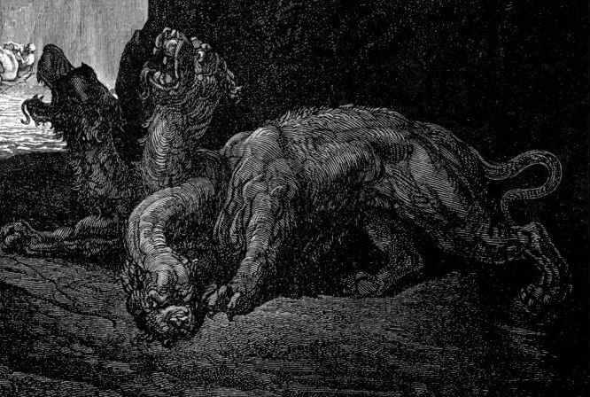 Cerberus (Kerberos) - Extract to G. Doré in Dante, Inferno: Canto 6, lines 24-26